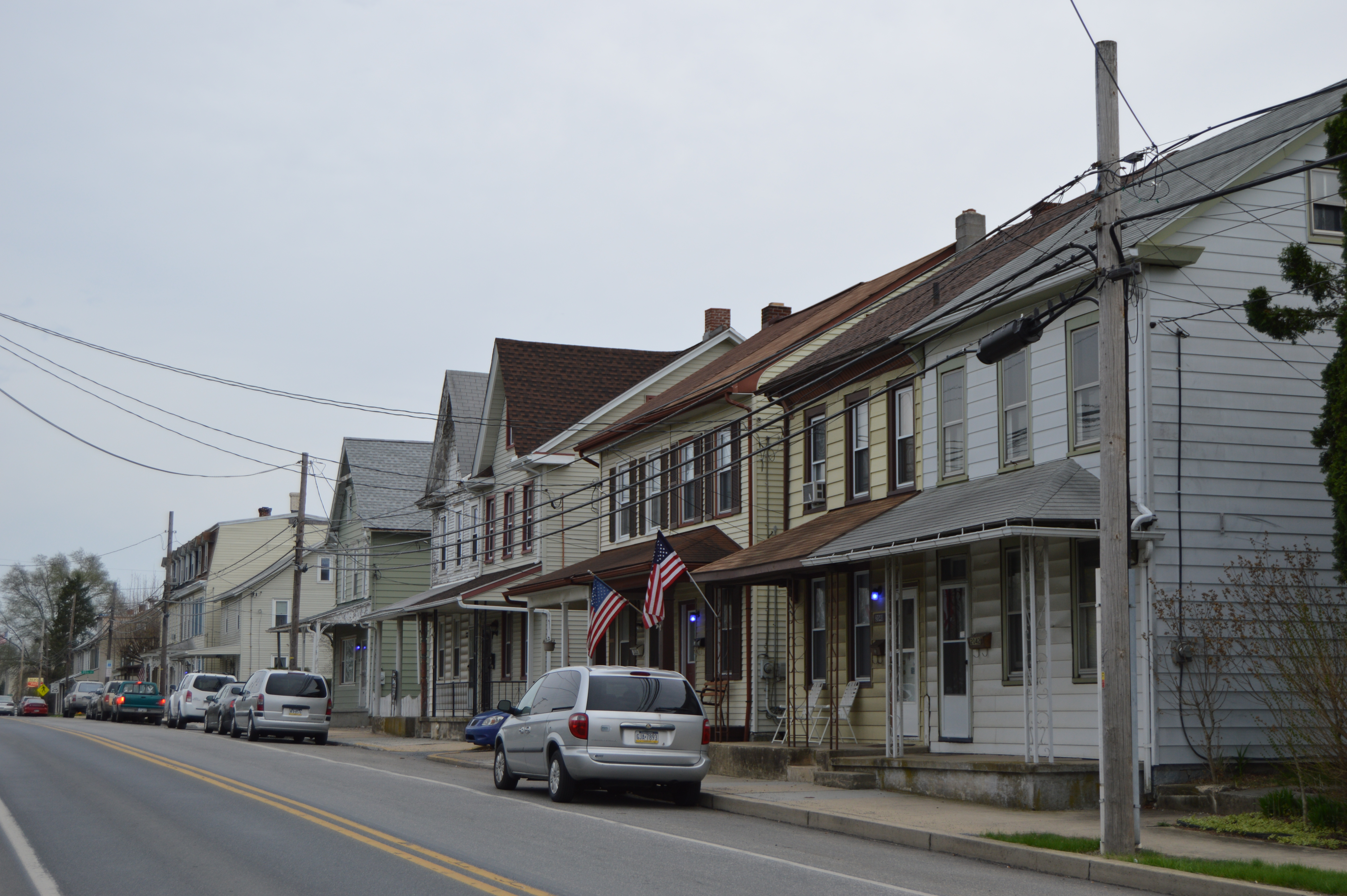 Houses on the southern side of Lehman Street east of the 21st Street intersection in West Lebanon Township, Lebanon County, Pennsylvania, United States.